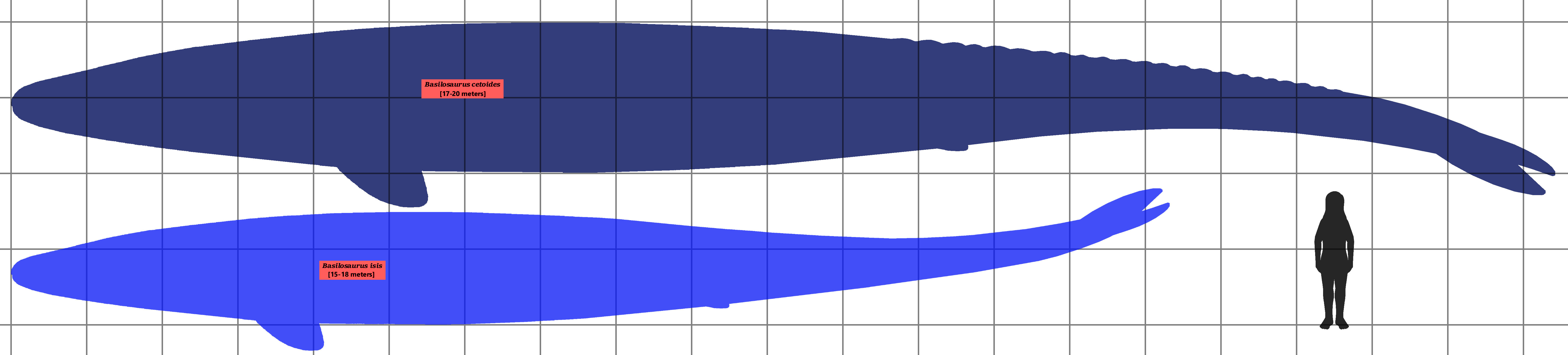 Size comparison between the extinct whale Basilosaurus and a human.